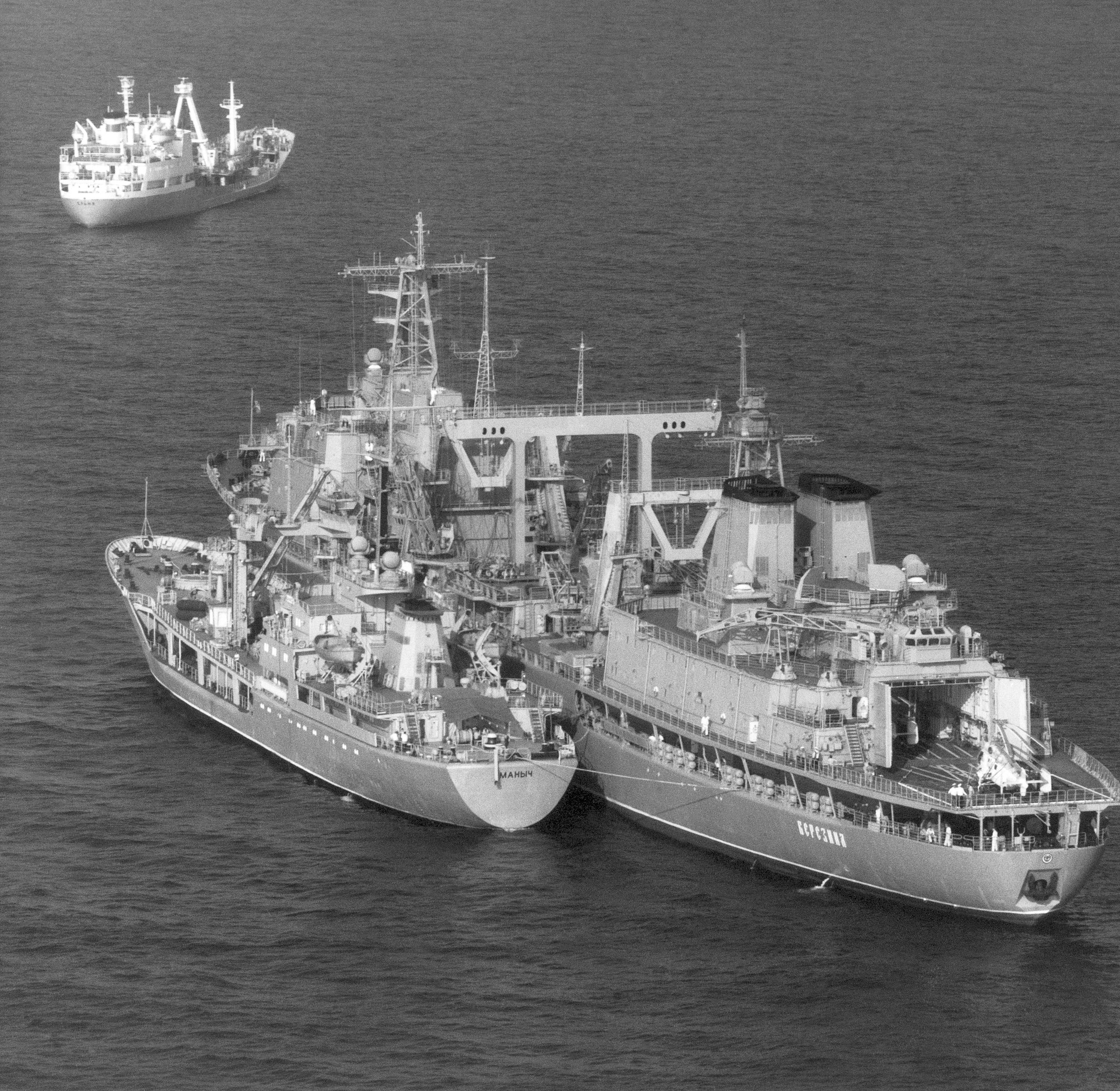 Aerial port quarter view of the Soviet fresh water tanker MANYCH, (left) and the large replenishment ship BEREZINA, at an open-ocean anchorage.